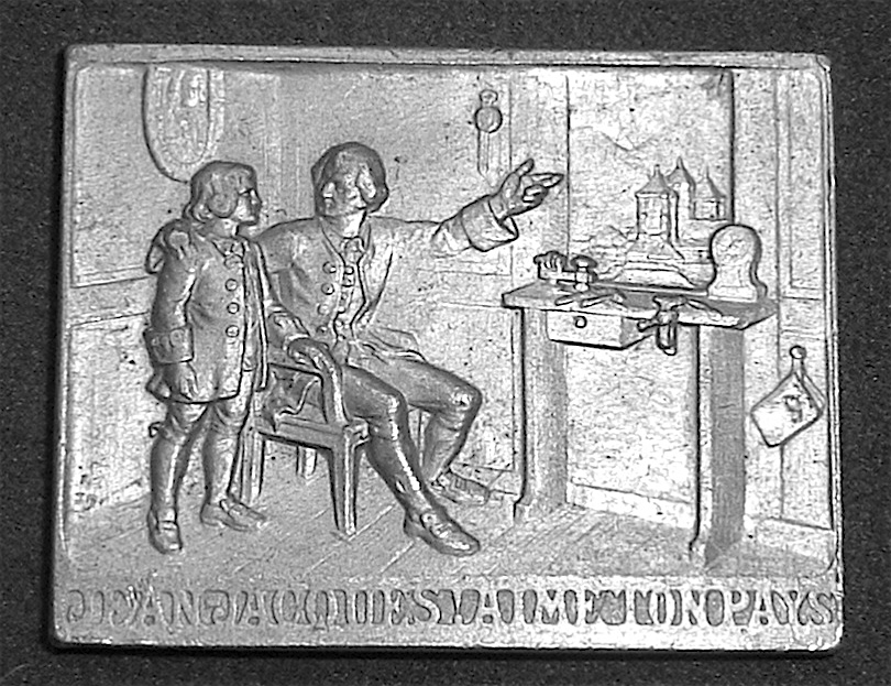 Plaque of Jean-Jacques Rousseau issued by Geneva in 1912